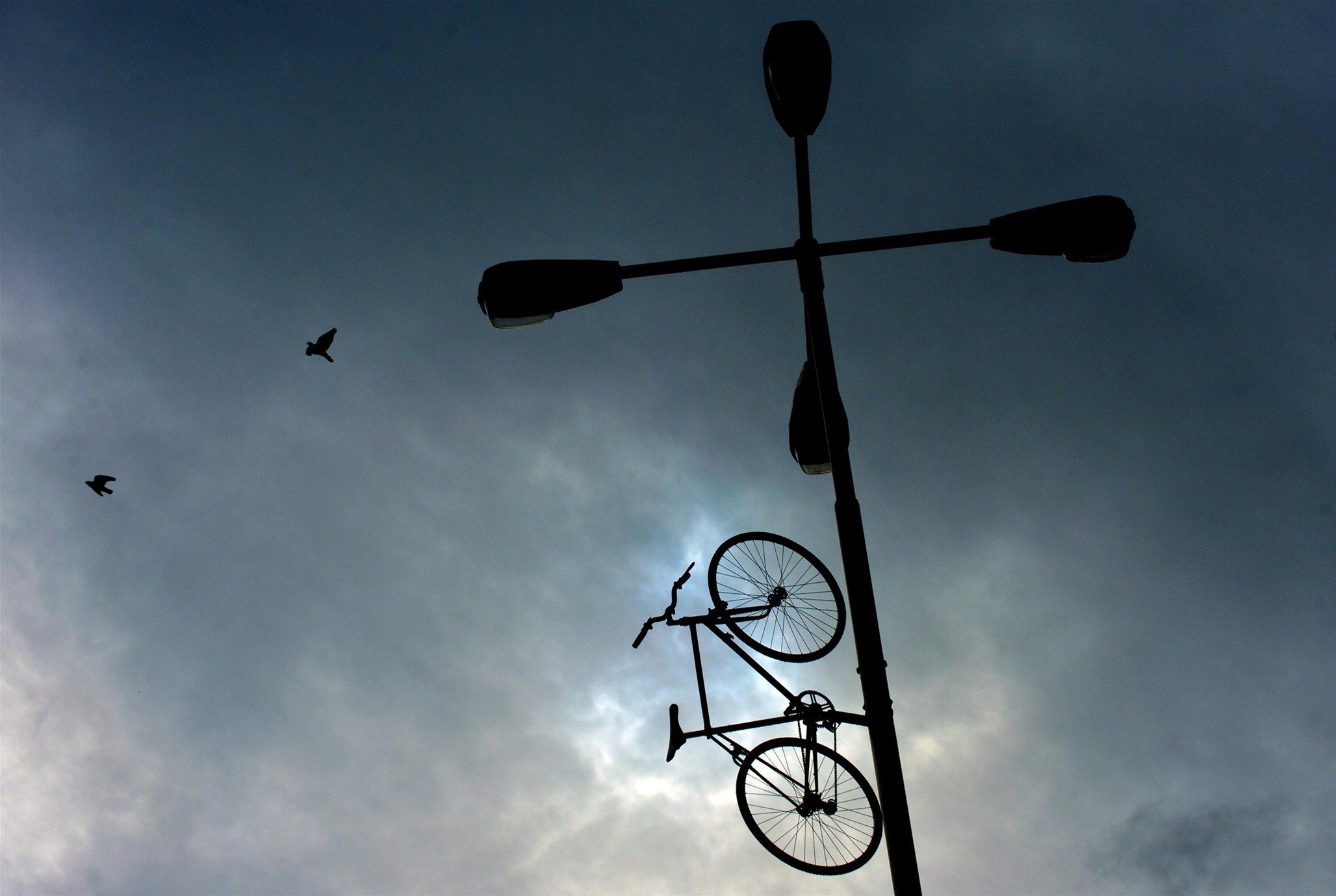 Bike to Heaven, a memorial of the activist Jan Bouchal. Author: Krištof Kintera, place: Kapitána Jaroše Embankment, Holešovice, Prague, the Czech Republic.